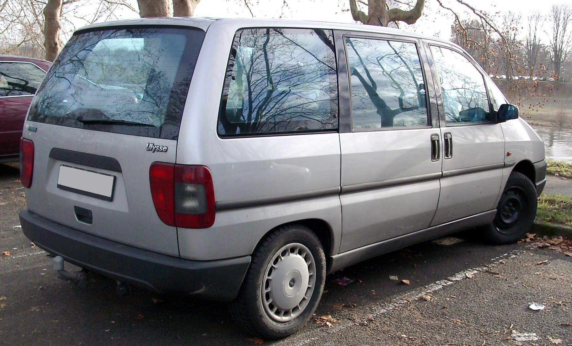 Fiat Ulysse